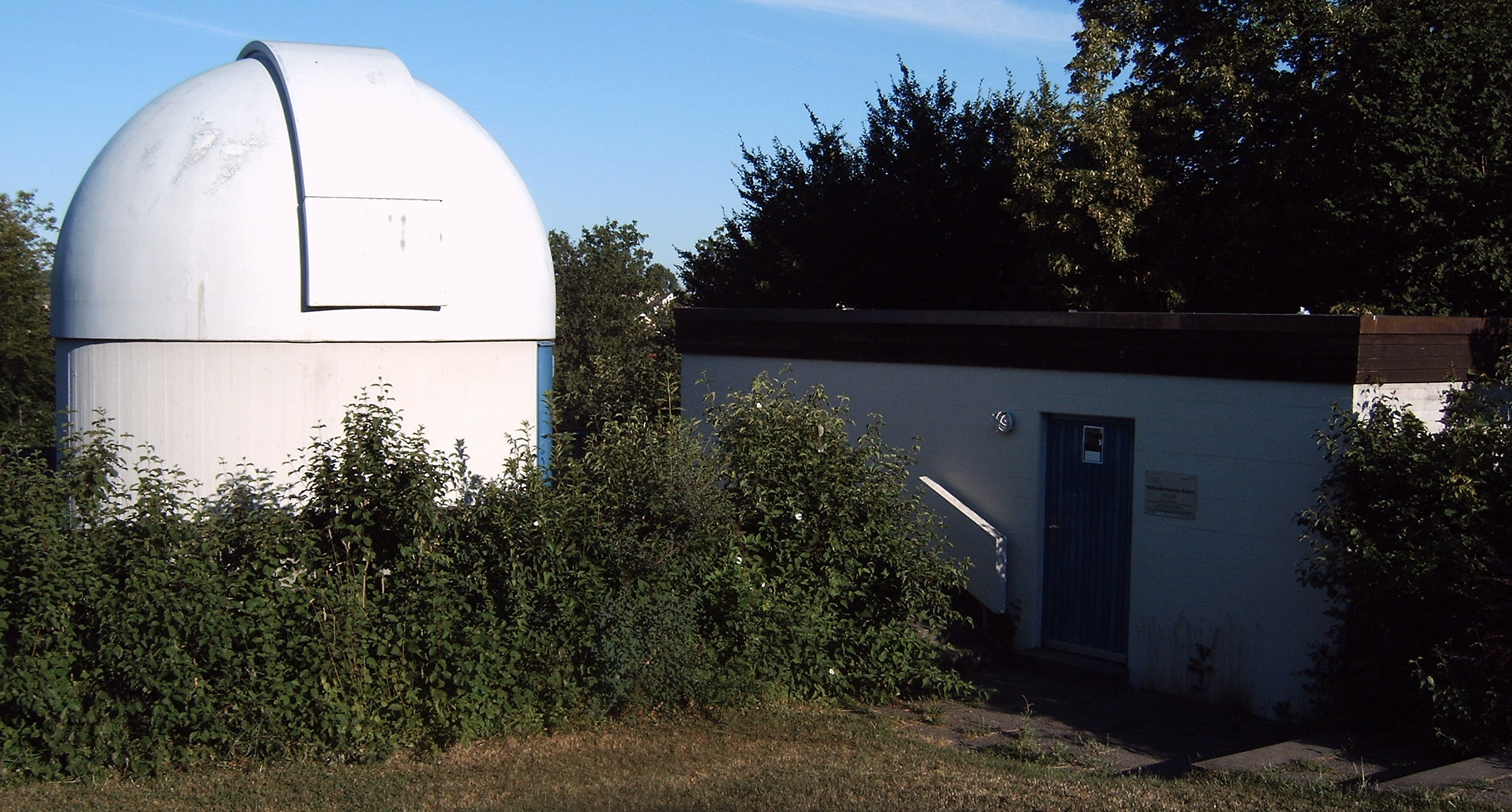 Observatory in Aalen, Germany